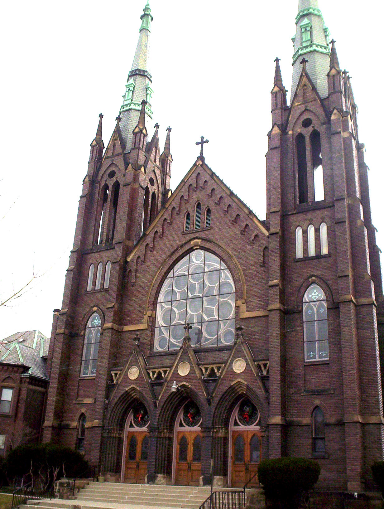 Old Oaks Church; Community of Holy Rosary and St. John